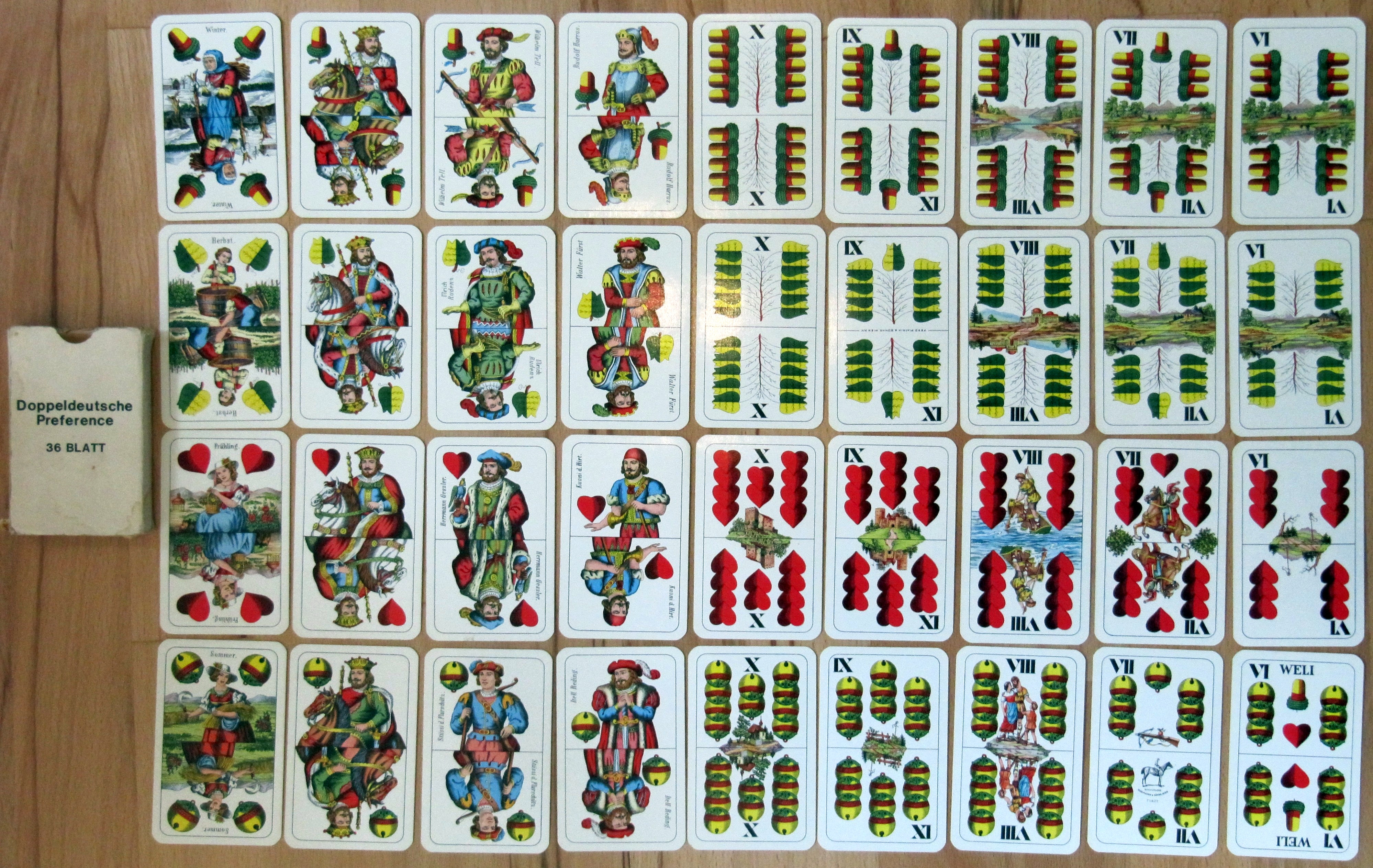 This photograph shows a deck of German playing cards with pictures from the legend of Wilhelm Tell. The deck is labeled “Doppeldeutsche Preference” and has 36 cards.